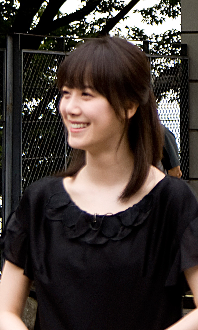 KuHyeSun, she had an interview with japan broad cast. (seoul, N tower)